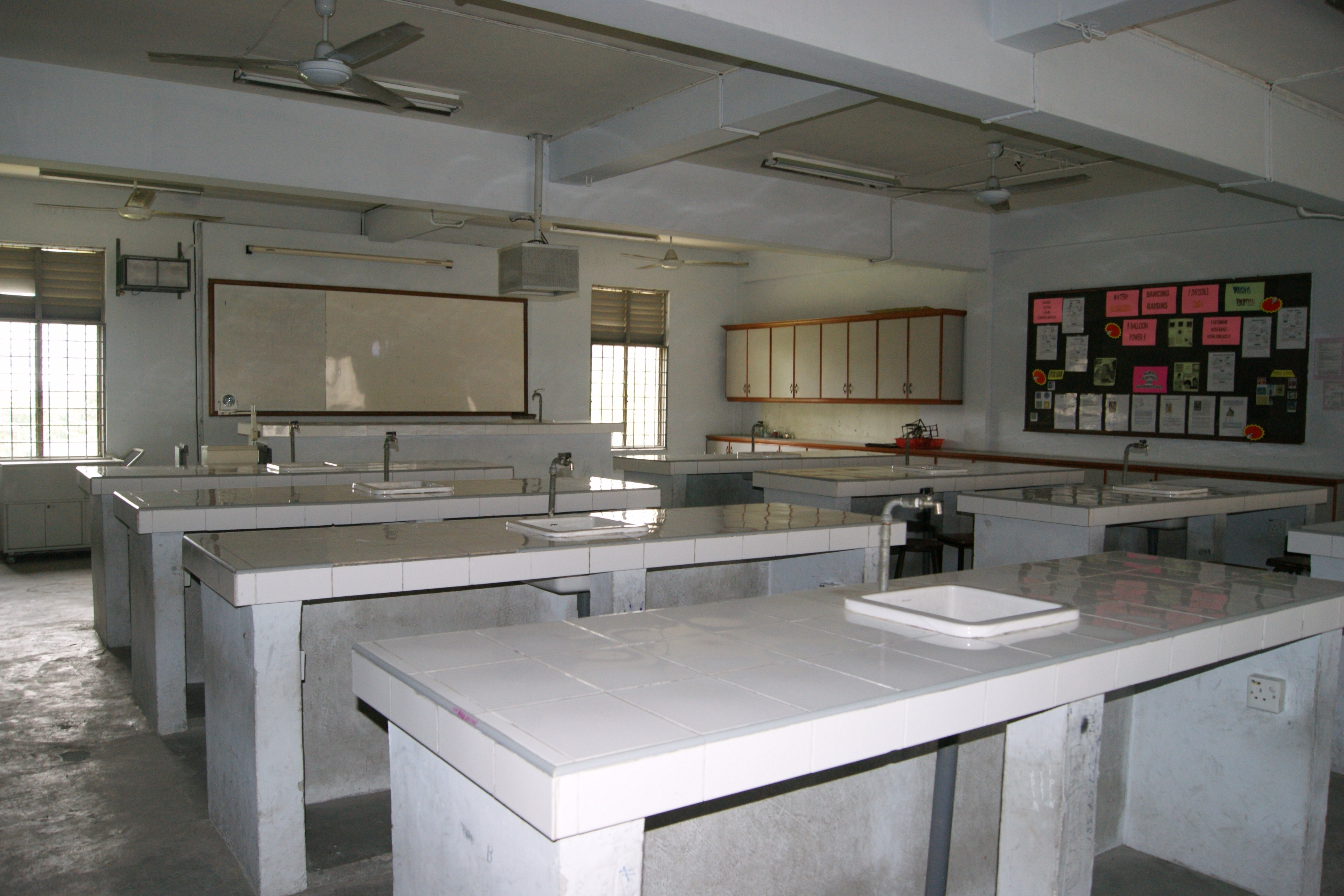 Science Lab 2 - Hari Raya